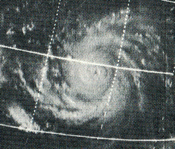 This ITOS 1 weather satellite picture of Typhoon Patsy was taken on November 17, 1970 at 0657 UTC